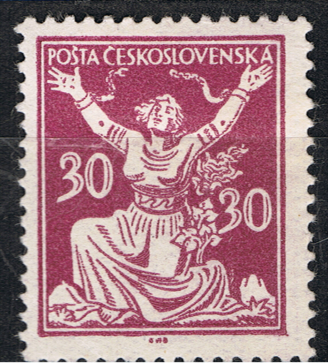 Czechoslovak postage stamp, 1920/1922, Mi. 172